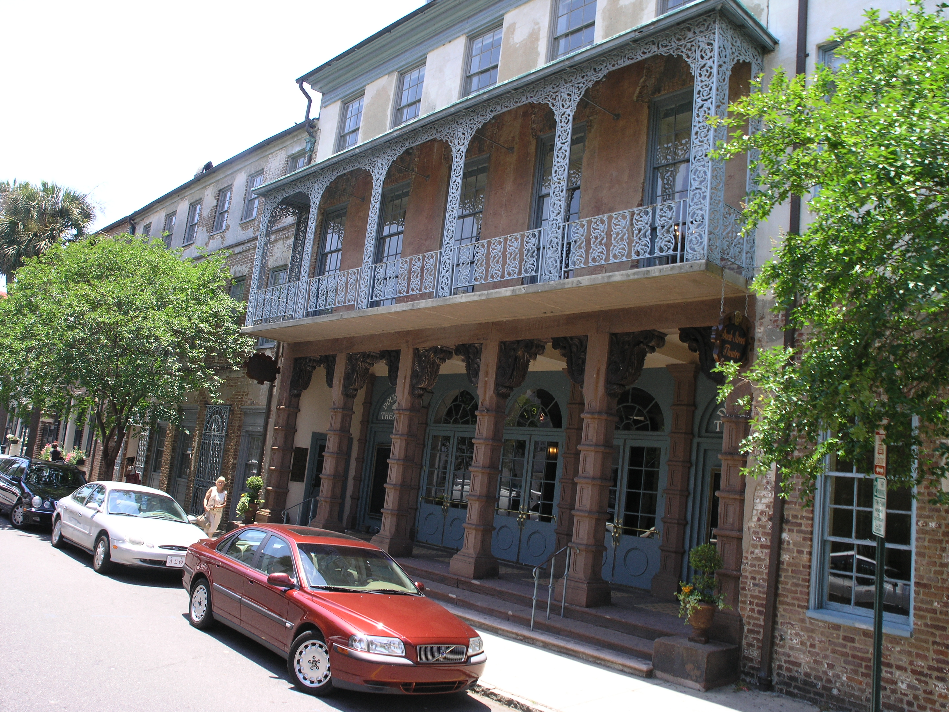 Photo in or around Charleston, South Carolina